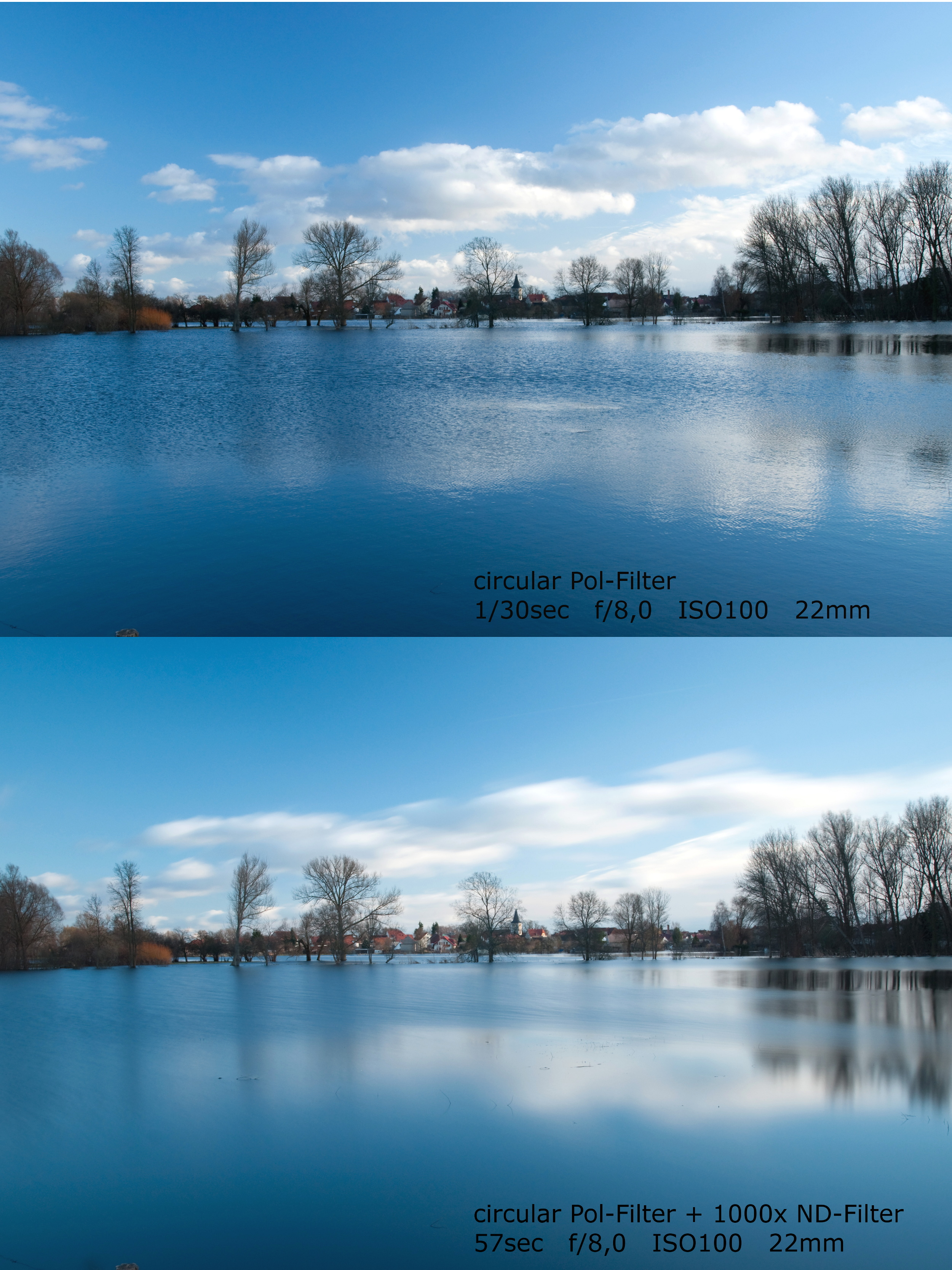 Comparison of two pictures showing the flooded meadows in Havelsee to show the result of using a ND-filter. The first one was taken using only a polarizer and the second one was taken using a pol and a 1000x ND-Filter (ND3.0), which allowed the second shot to have a much longer exposure, smoothing any motion. Although the filter labels 1000x, the real filter factor is ~1666!